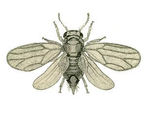 Kurrajong twig psyllid. Aconopsylla sterculiae (Hemiptera: Psyllidae)